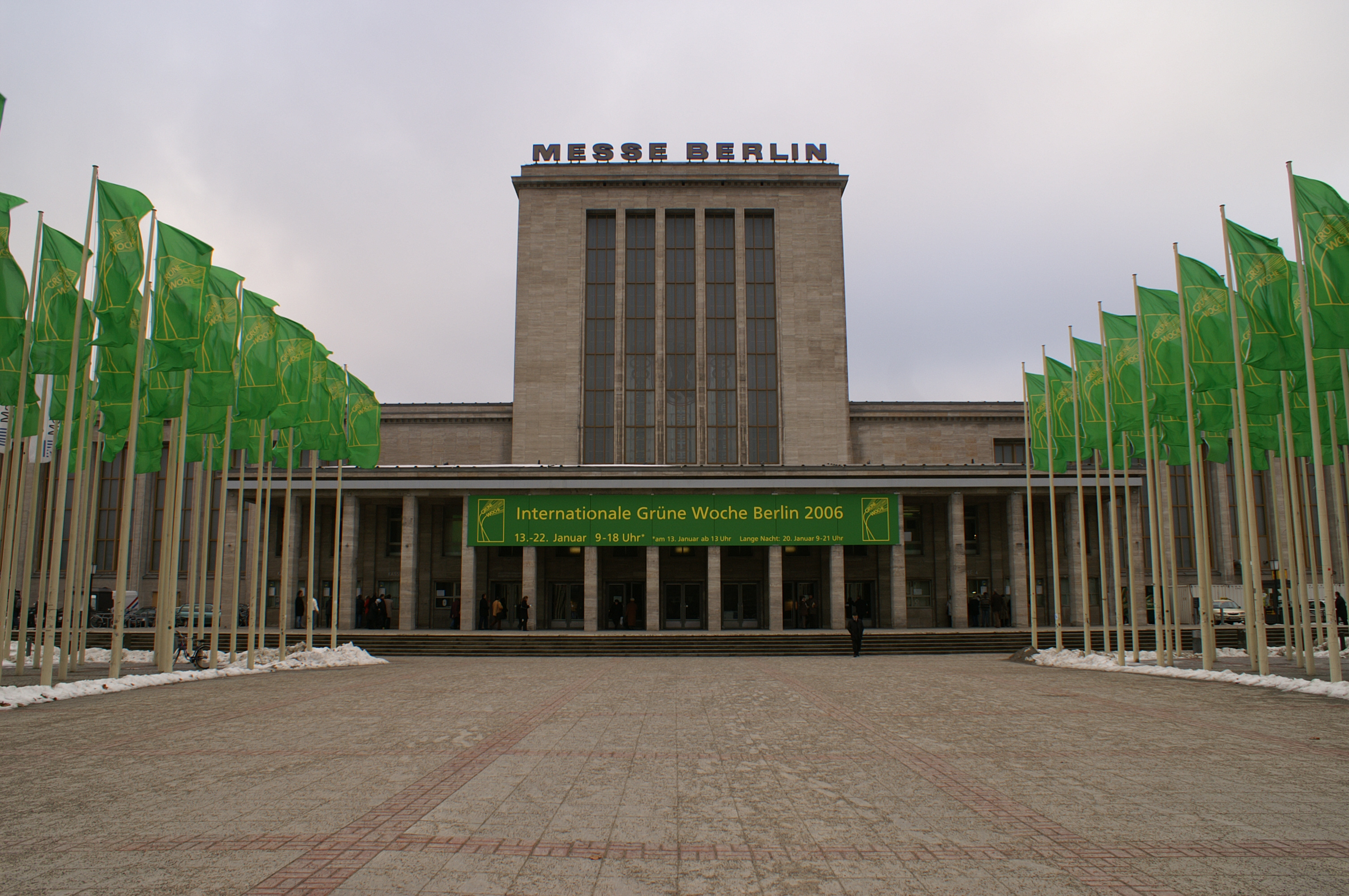 Entrance of the Berlin fair ground, advertisements for the fair "Grüne Woche" (German for Green week)